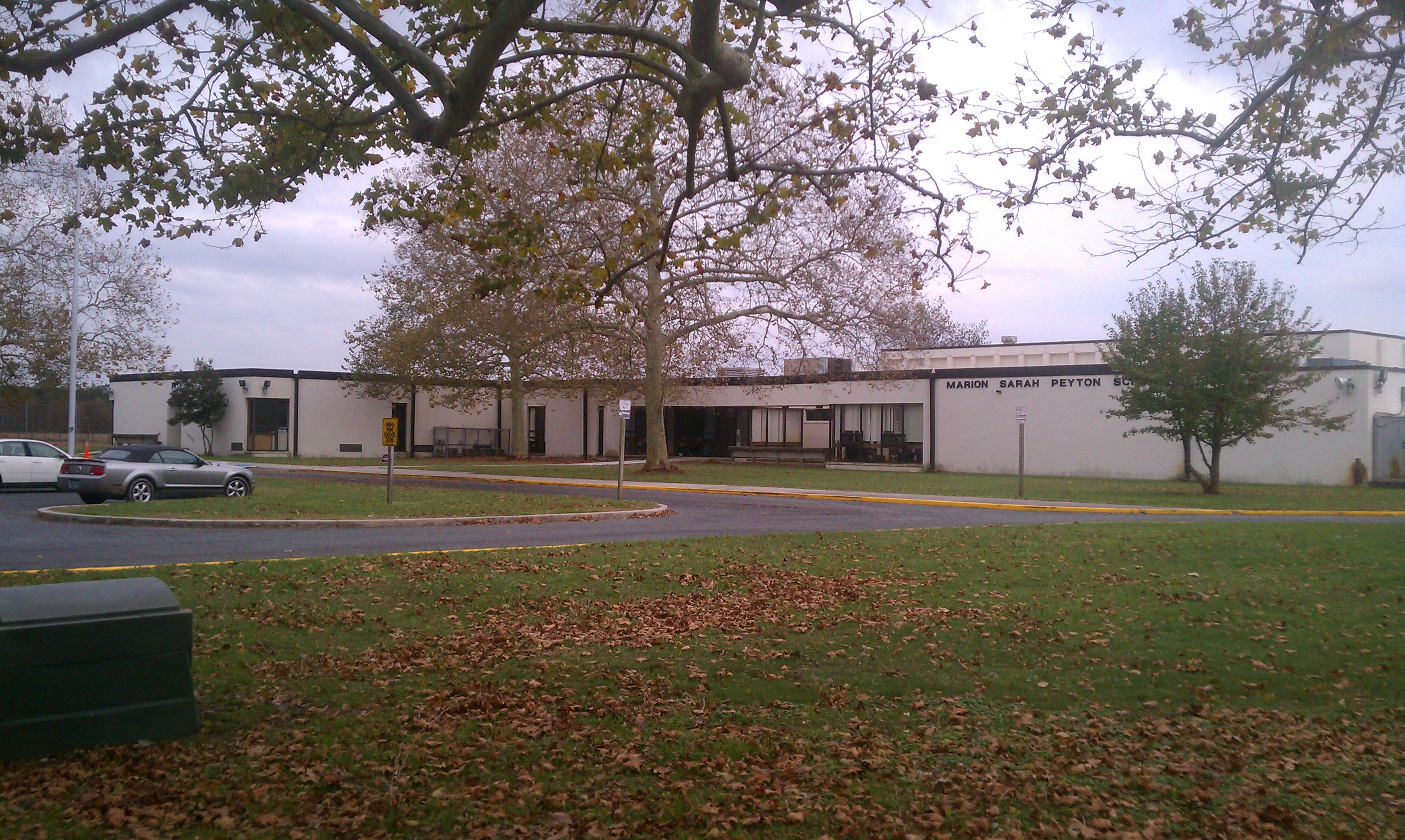 View of the former Marion Sarah Peyton School in Marion Station, Maryland, which was the elementary (grades 3-5) for southern Somerset County until 2007. The building now houses the Marion Sarah Peyton Somerset Promise Academy.